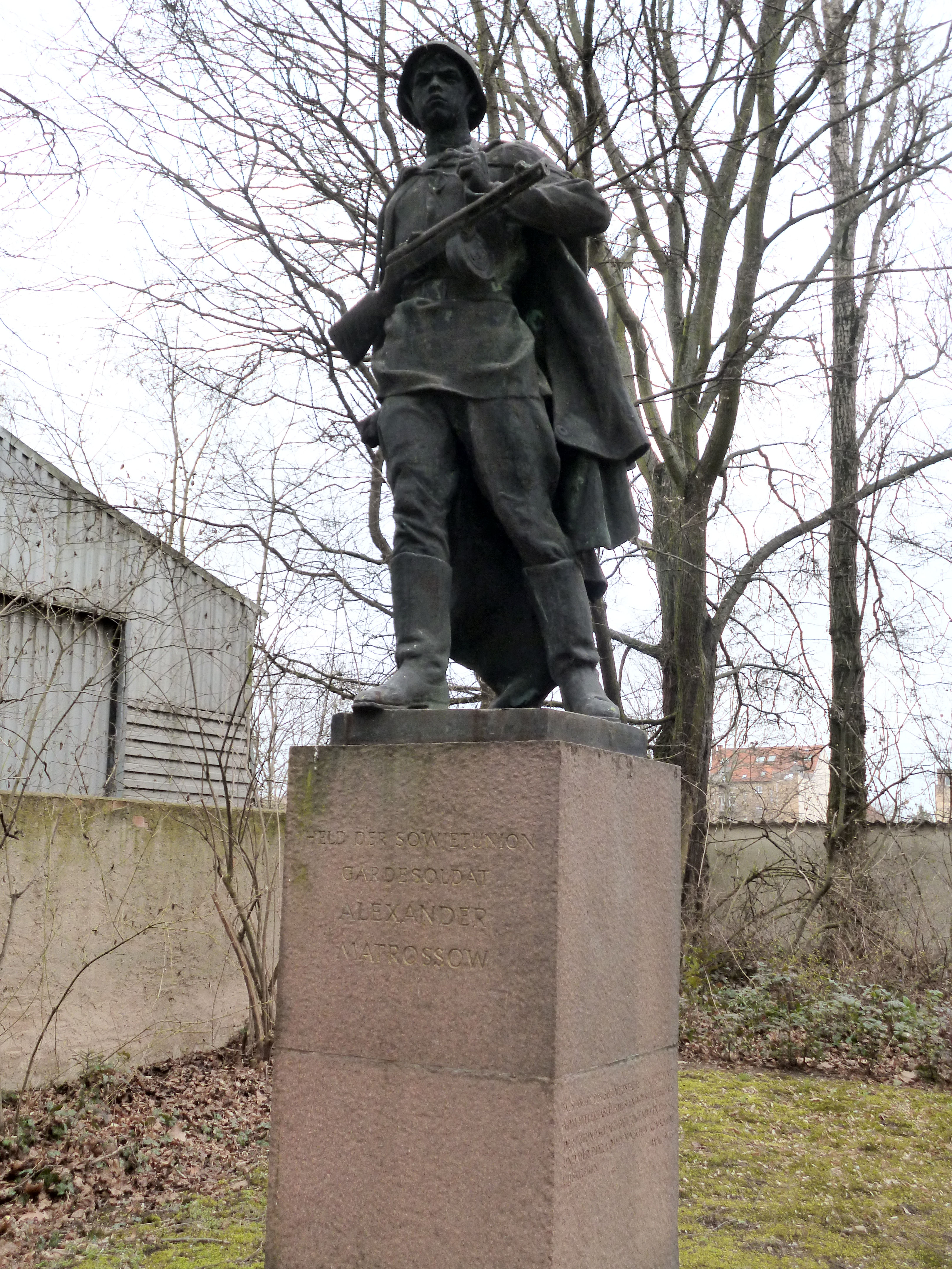 Sculpture Aleksandr Matrosov in the burial area for members of the Red Army and their family members, Cemetery Südfriedhof, Halle (Saale)